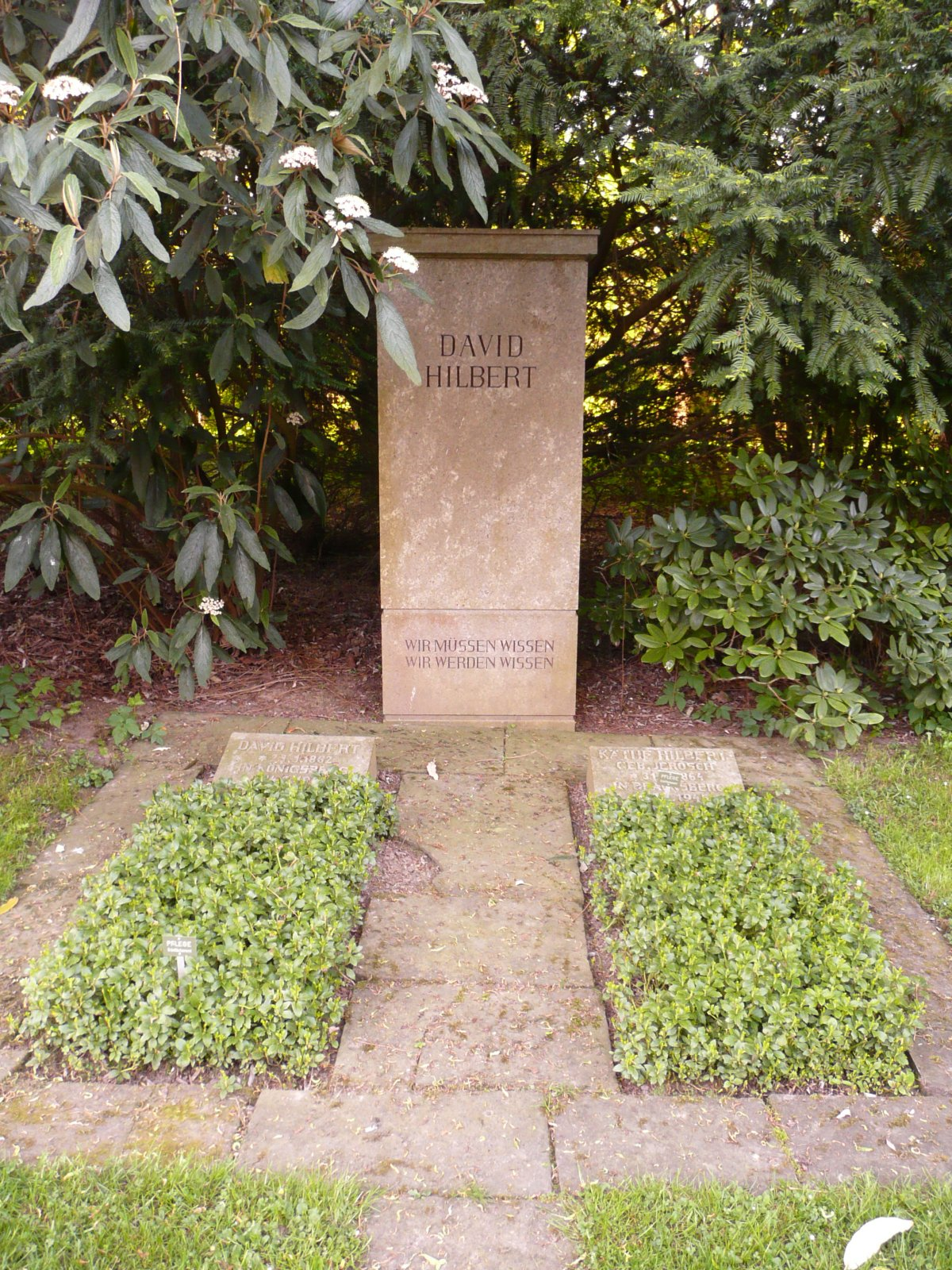 Tomb of David Hilbert in Goettingen